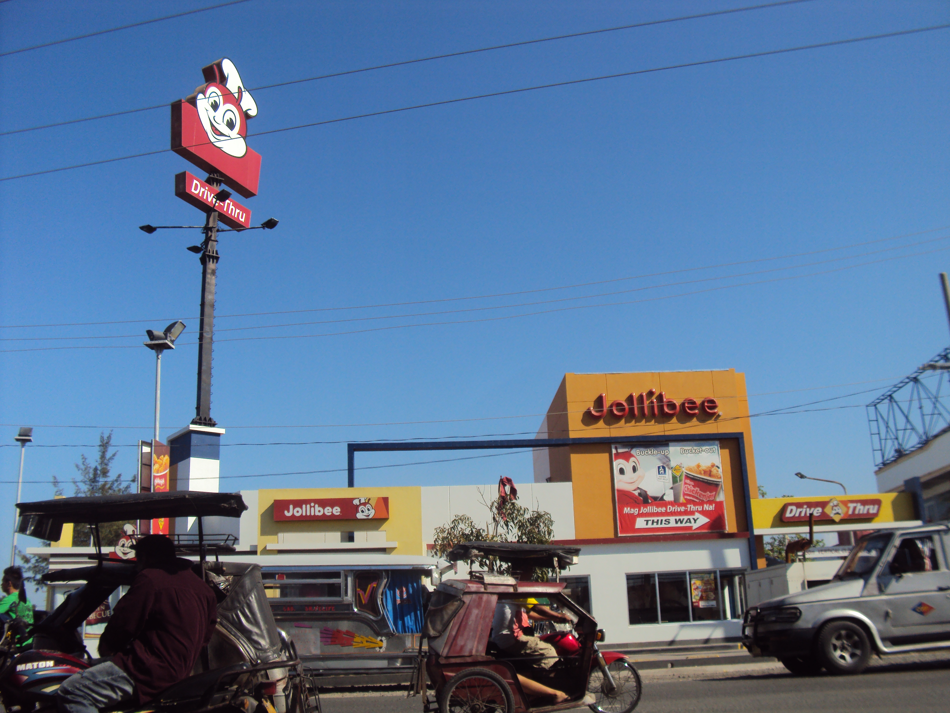 Jollibee Iba